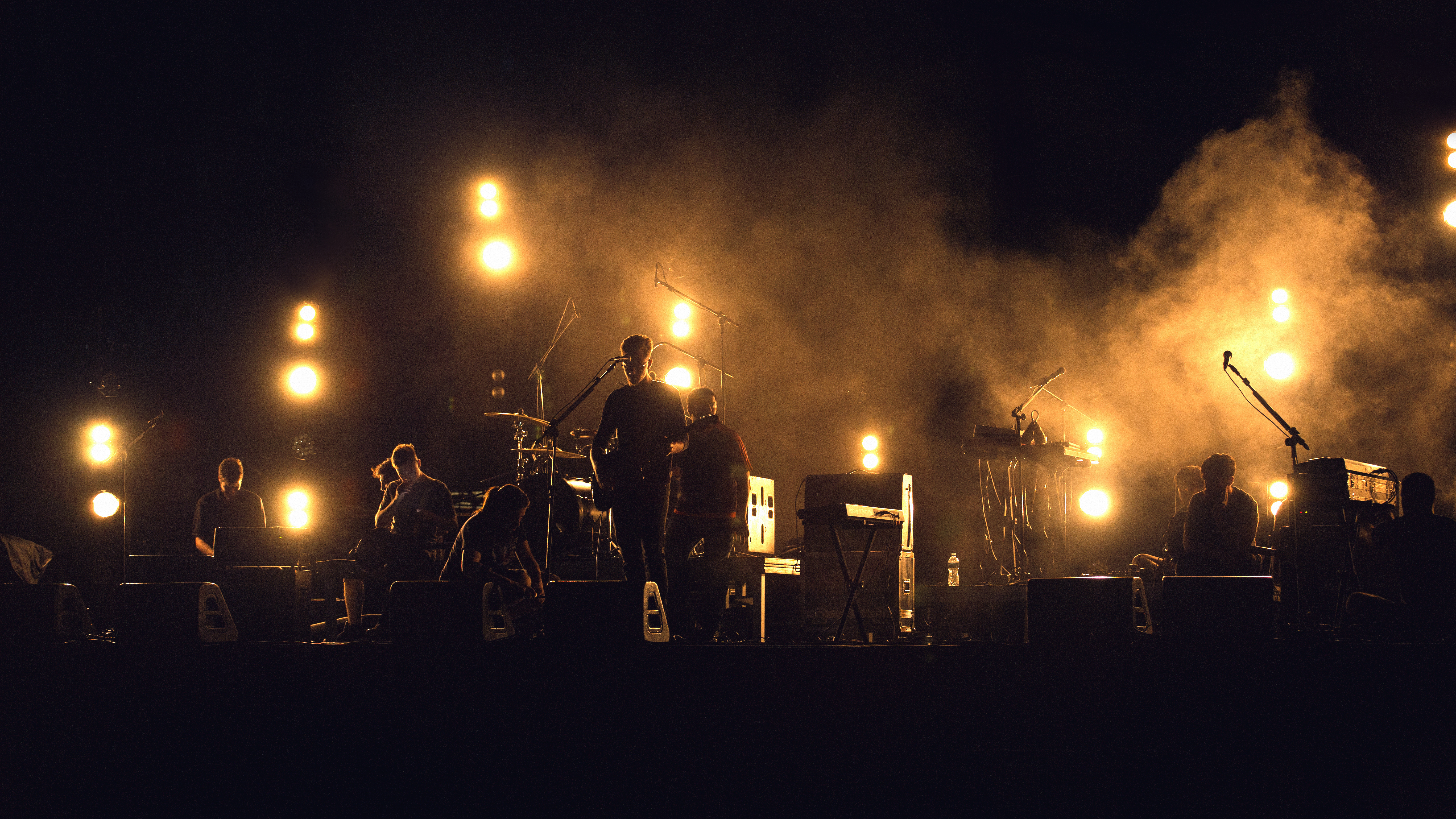 Brasília, Brazil